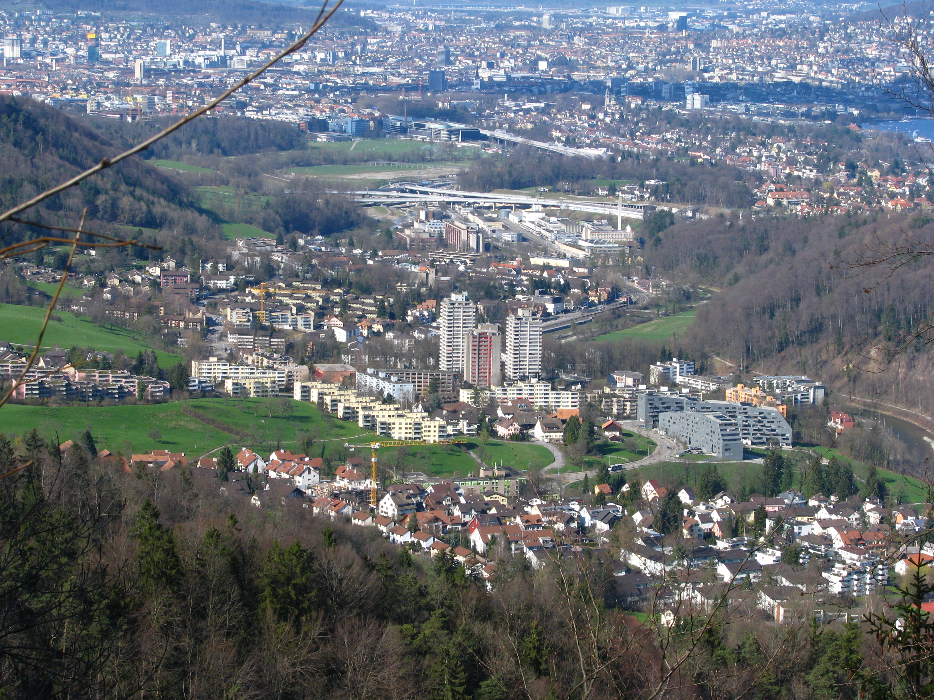 Zürich-Leimbach, Brunau, and lower Sihl valley, as seen from Felsenegg heading to Zürich-Nord.